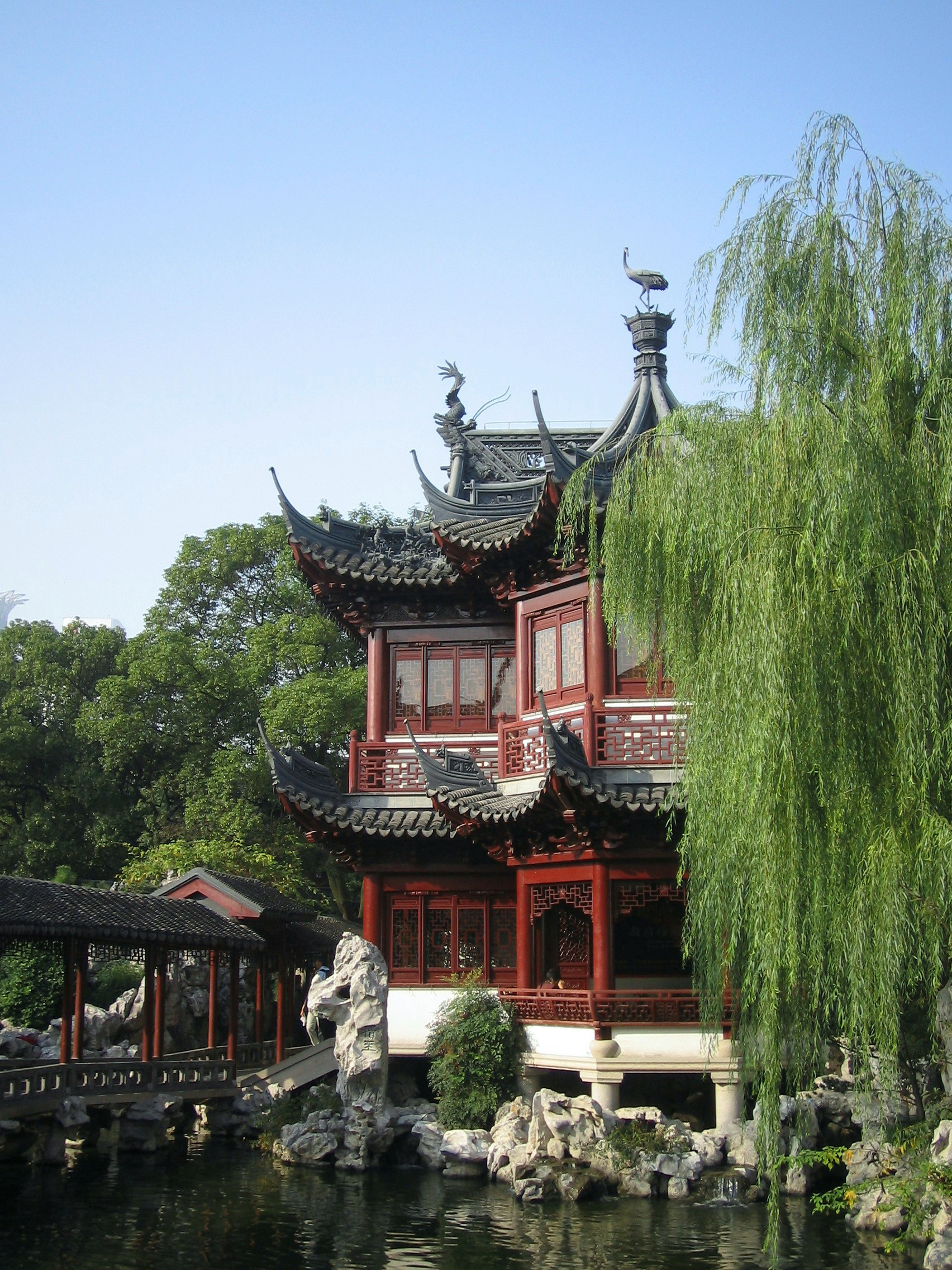 Tingtao Tower (Right) and Jade Rock at Yu garden in Shanghai